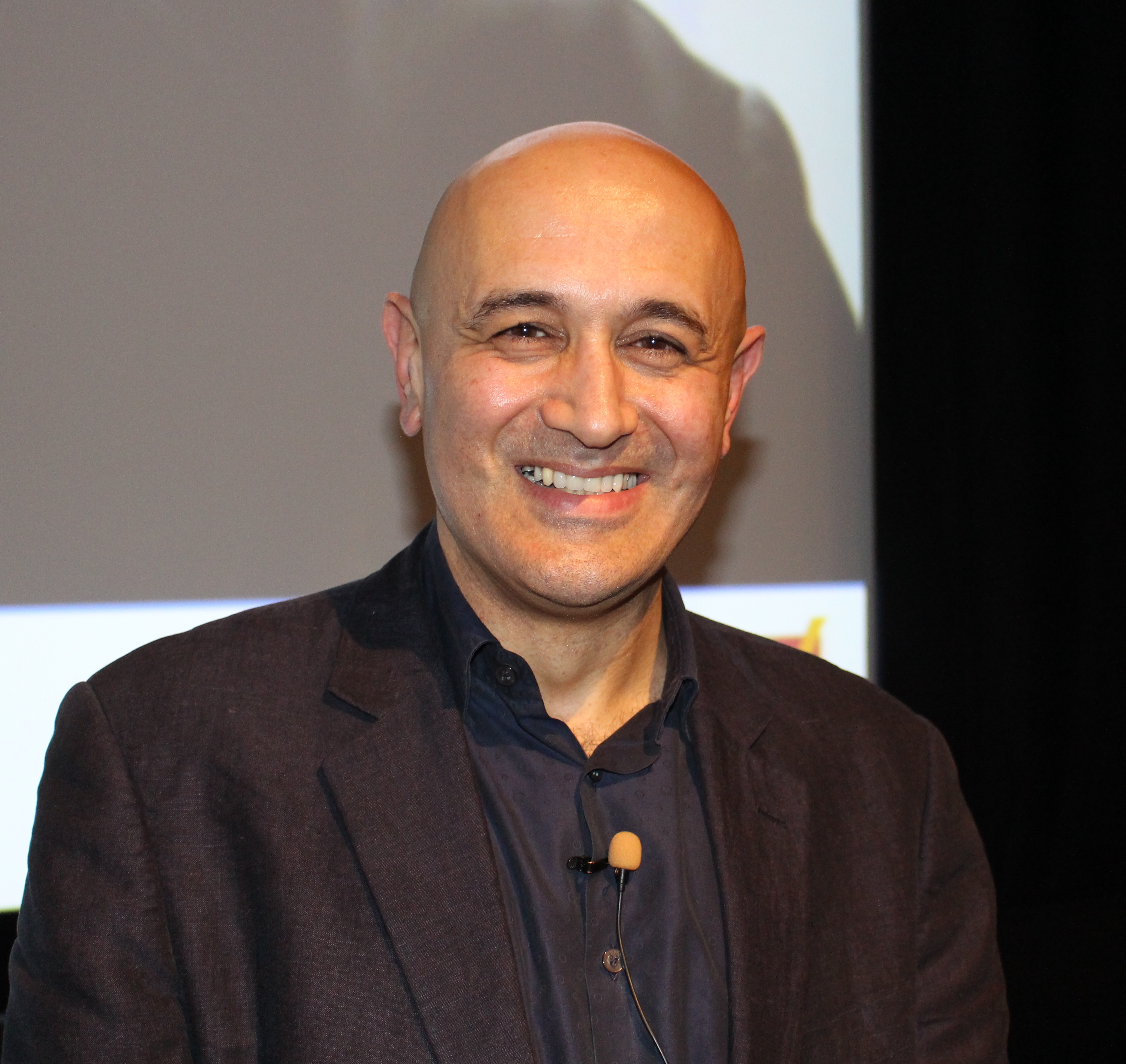 Author and broadcaster